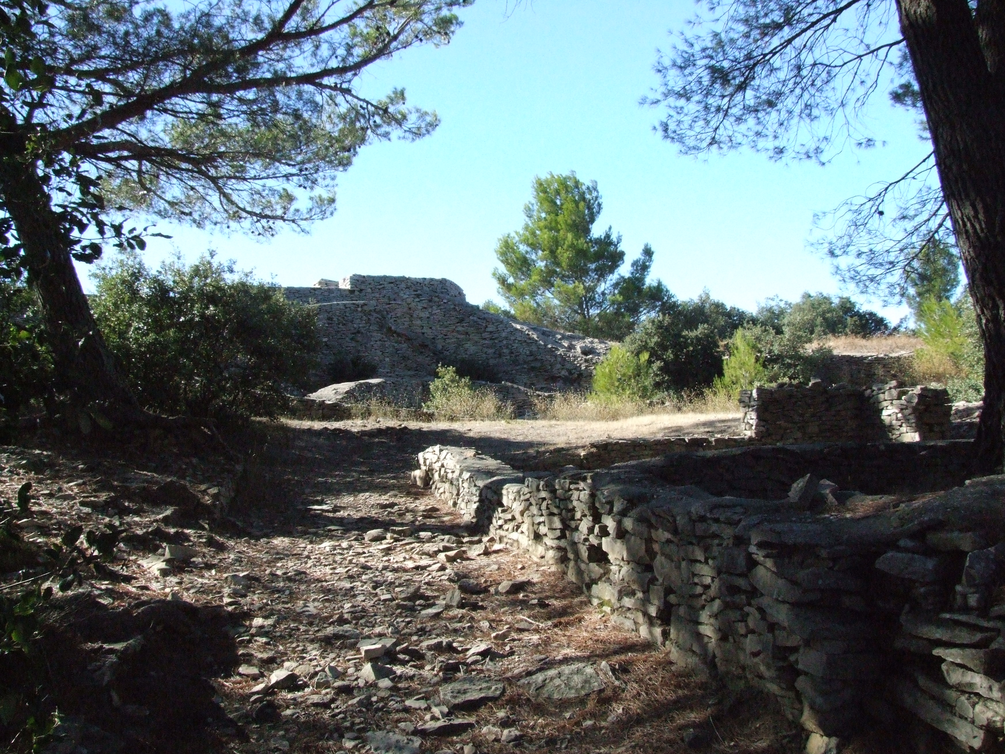 The village of Nages is dominated by the two Gaulish oppidums of Roque de Viou, and of Nages on the Roque de Viou hill to the north. Palisades-see map